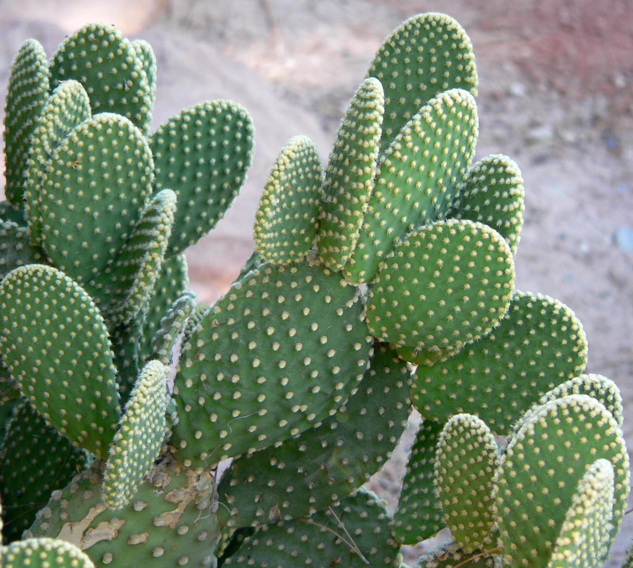 Photo of Opuntia microdasys at the Springs Preserve garden in Las Vegas, Nevada